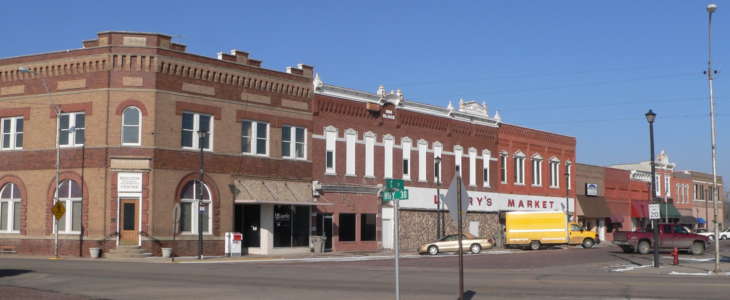 West side of C Street north of U.S. Highway 30 in Shelton, Nebraska. The building at left is the Shelton Historical Interpretive Center, formerly the Meisner Bank; it is listed in the National Register of Historic Places.